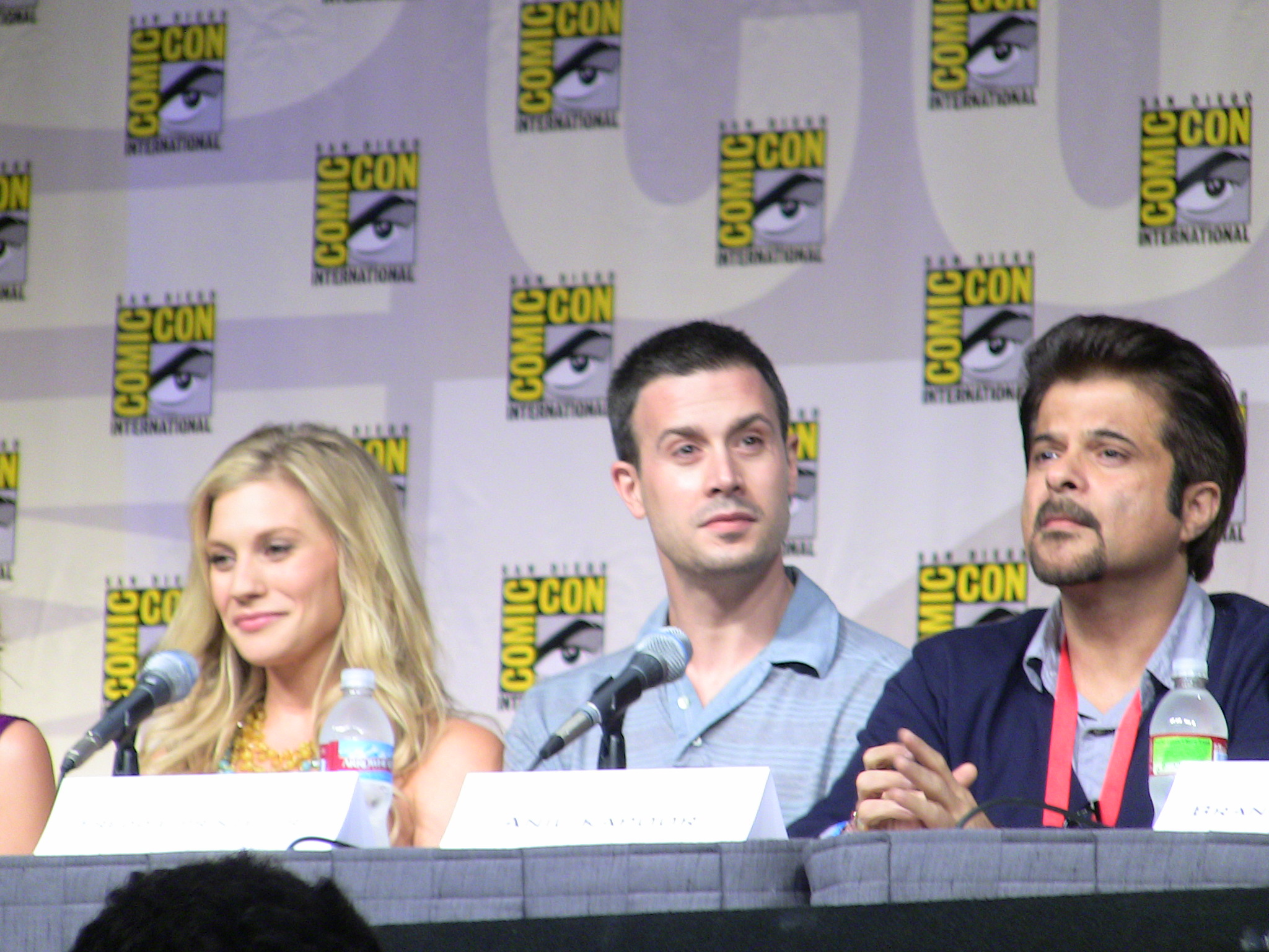 Comic-Con 2009 - 24 panel - San Diego, Calif. - July 24, 2009